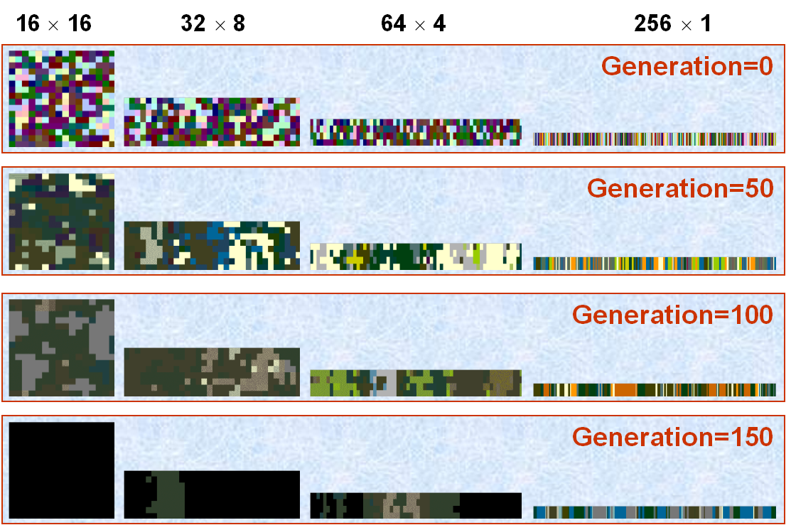 different snapshops during the execution of four cEAs having different shapes